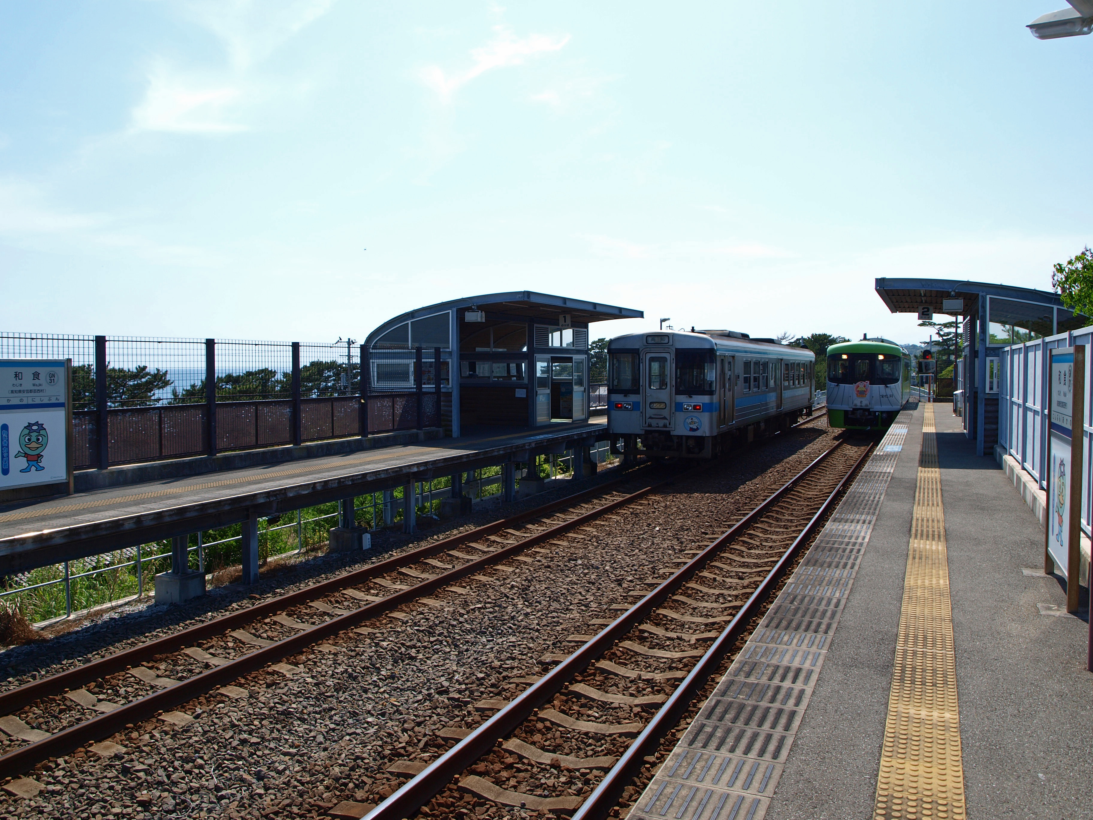 Wajiki Station, Gomen-Nahari Line（Asa Line), Tosa Kuroshio Railway, Japan